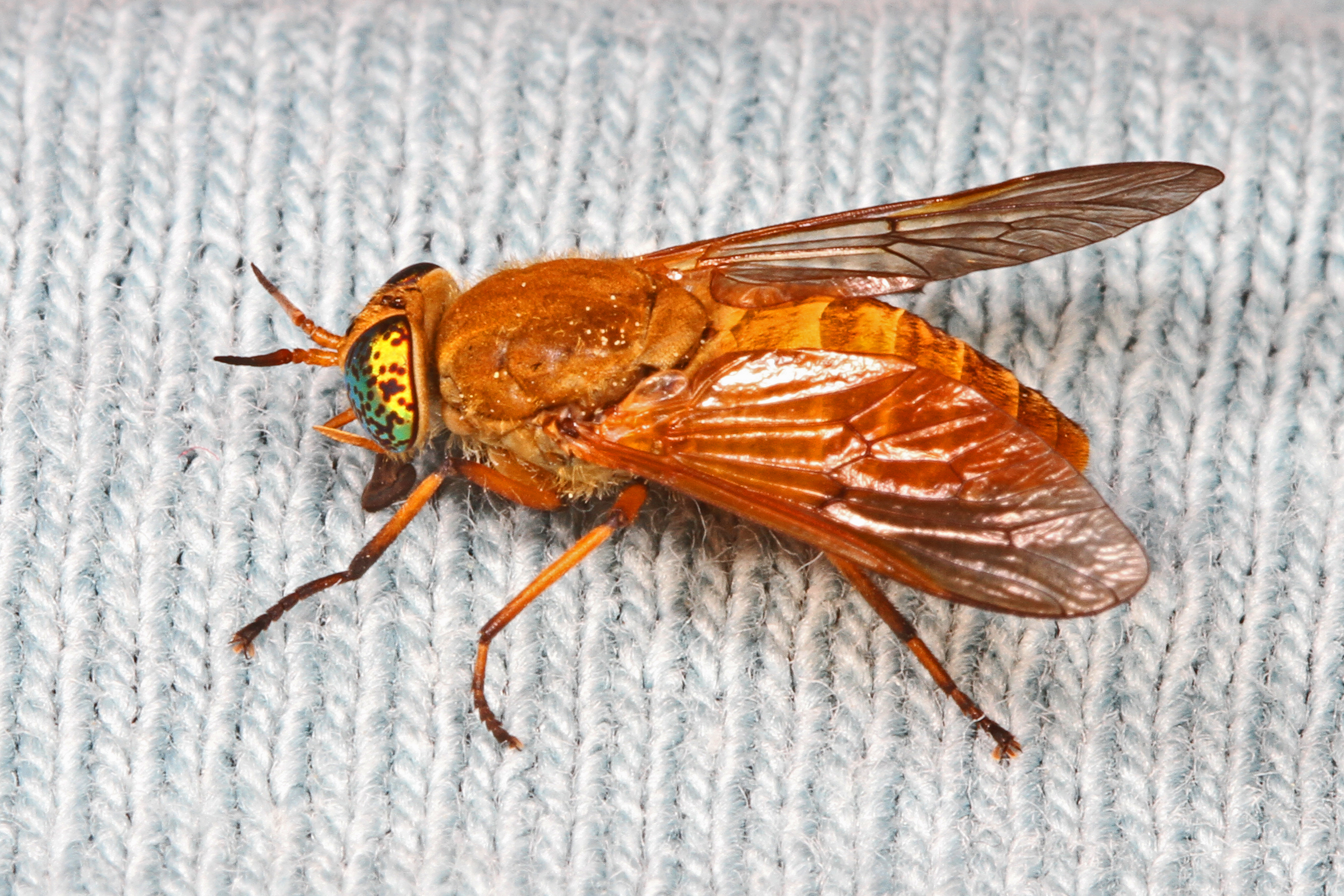 Golden Deer Fly - Silvius gigantulus, Bassetts, California. You can see the mouthpart extended - it's trying to take a chunk out of my leg. HFDF!